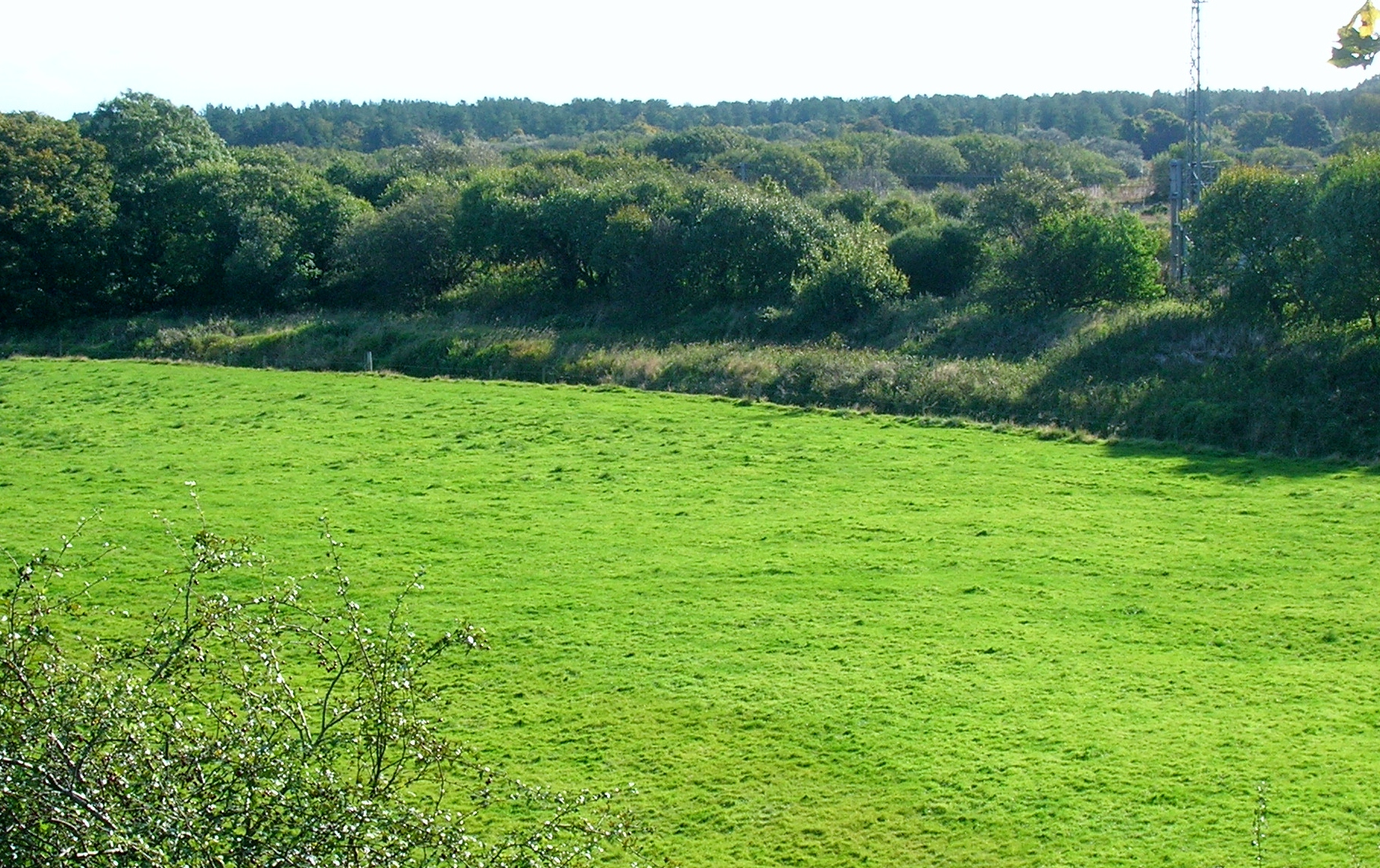 The Master Gott (drain), Ardeer, Stevenston, North Ayrshire, Scotland.